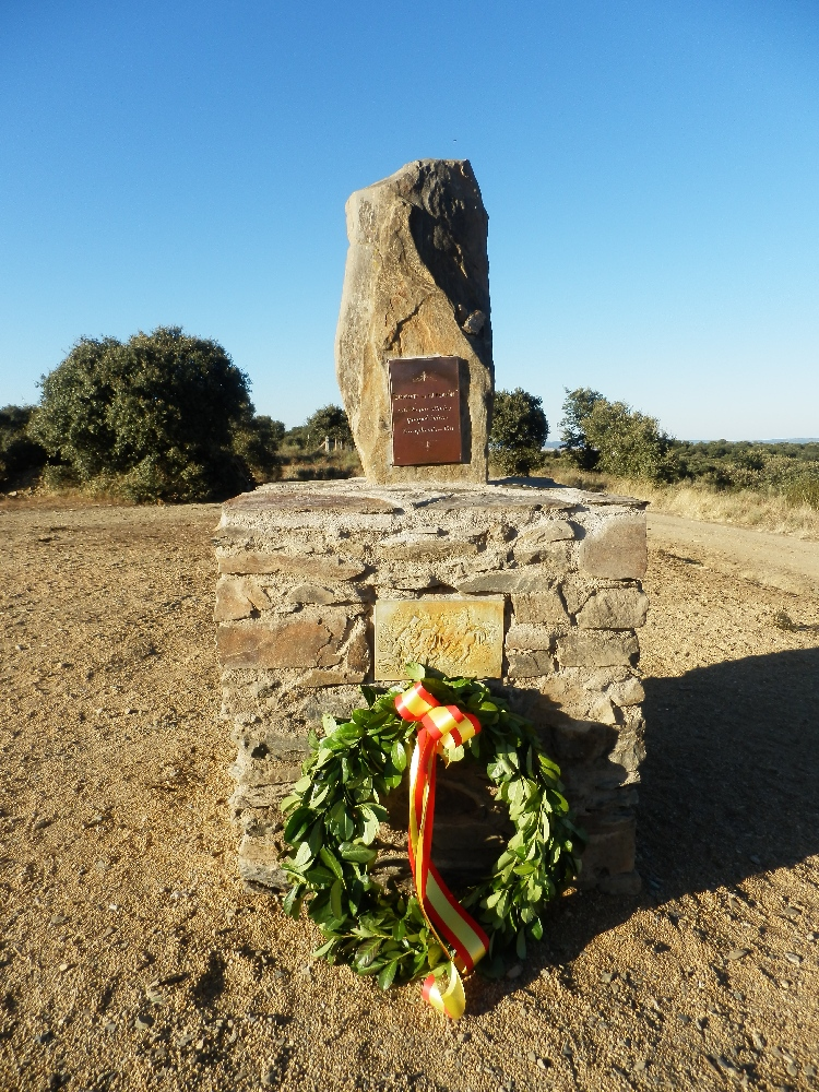 Monolith commemorating the 200th anniversary of the Battle of El Bodón.